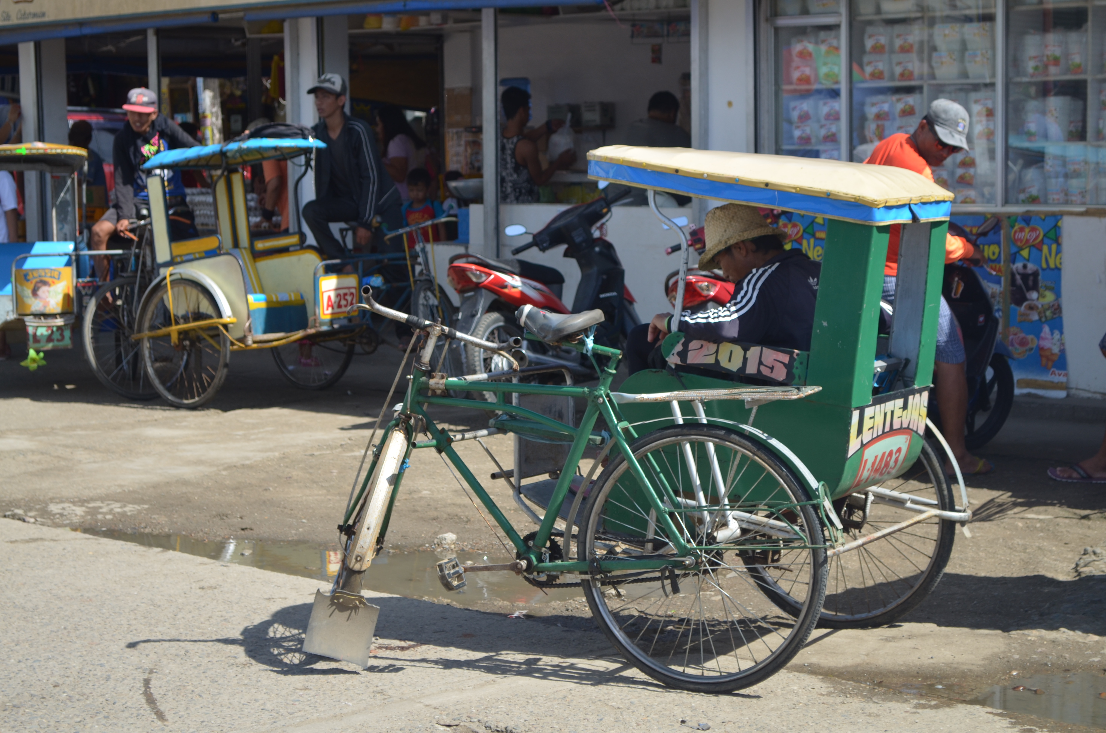 Taken during the December 2015 Sinirangan Bisaya Wikimedia Community activities in Eastern Visayas